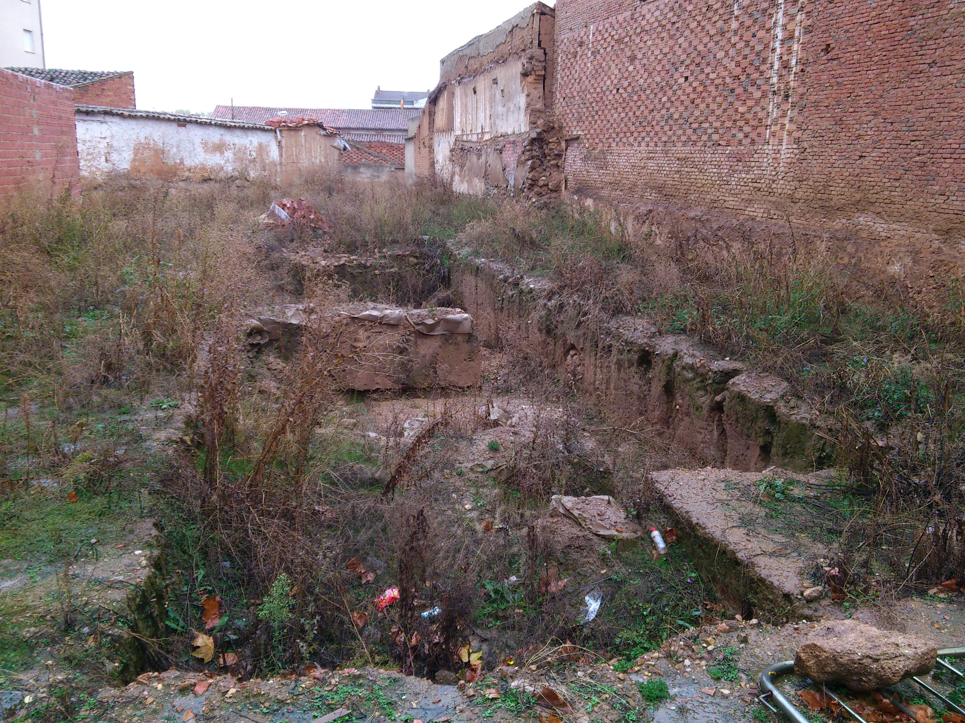 Archaeological digs inside urban area of Herrera de Pisuerga (Palencia, Castile and León).